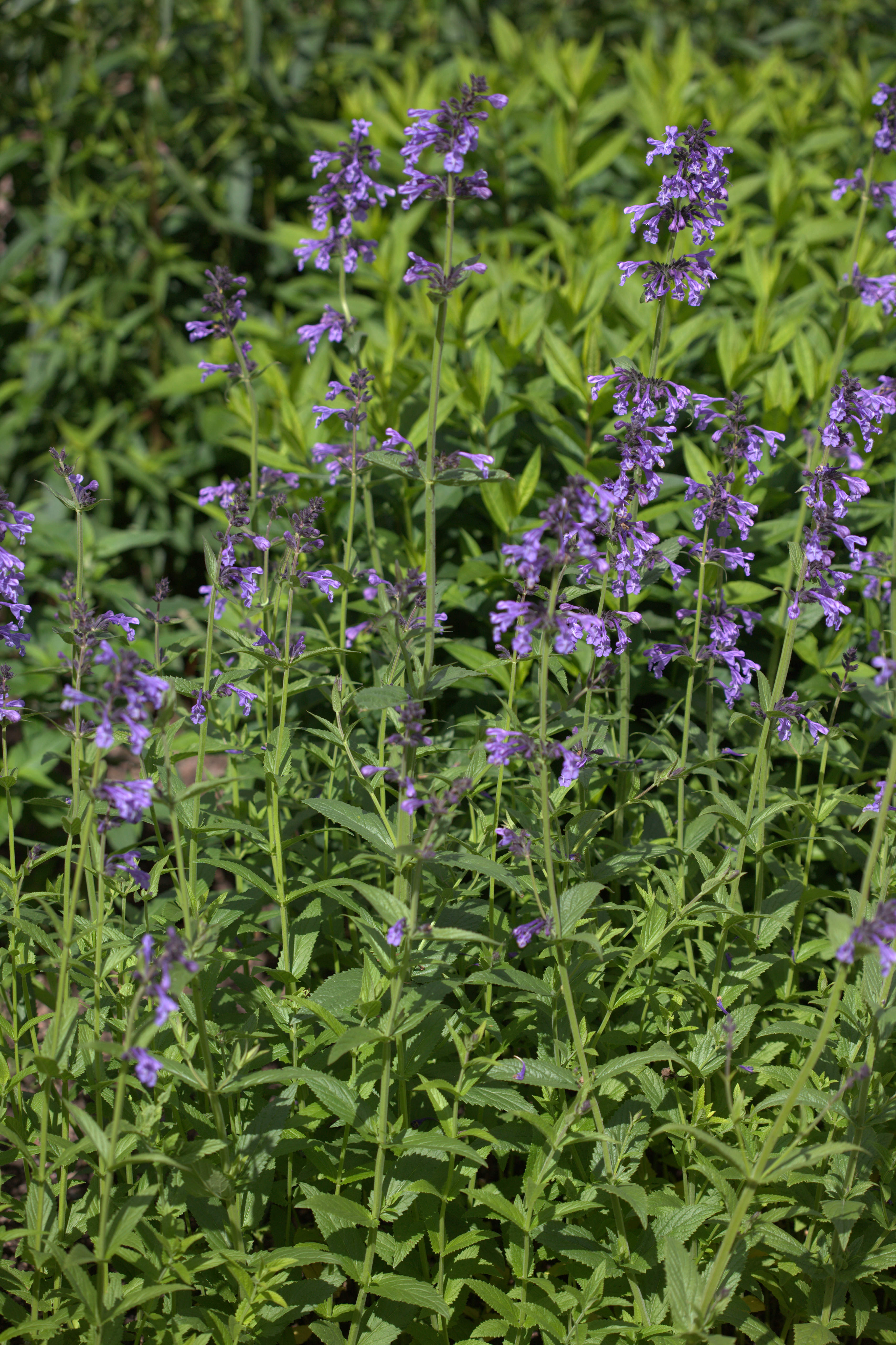 Photo taken at Gothenburg botanical garden. Specimen id: 1989-1077 p G Plant collected in 1989 from a garden (Lynga).